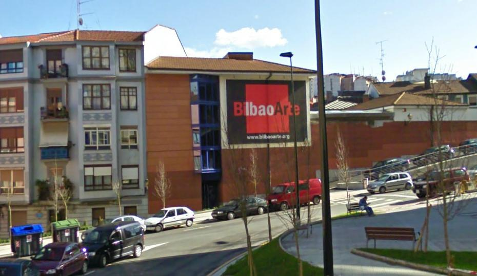 Art public foundation in Bilbao